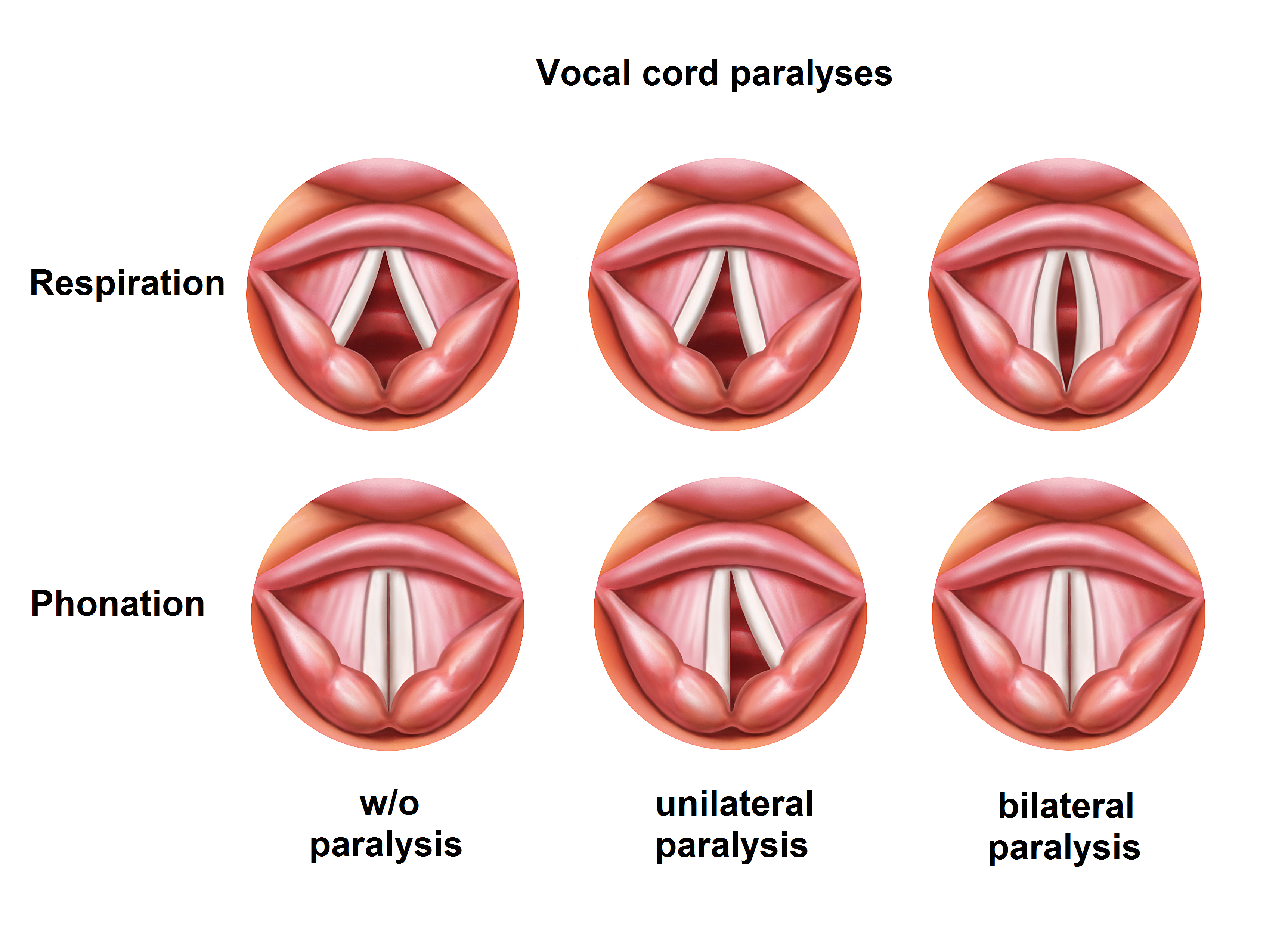 vocal cord positions regarding paralyses